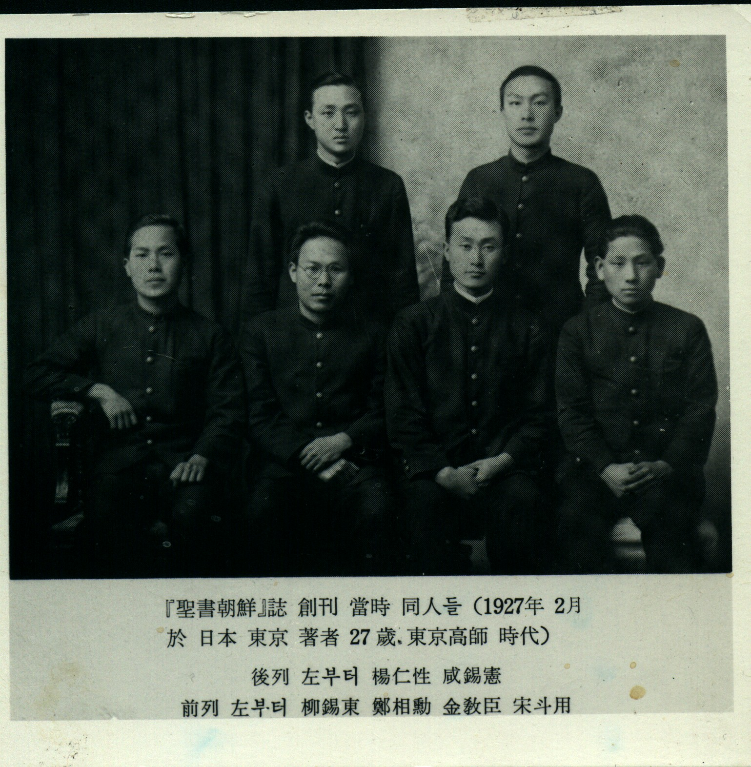 Ham Seokheon Portrait